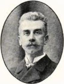 Johan Kristoffer Cronquist (1866-1921), Swedish physician